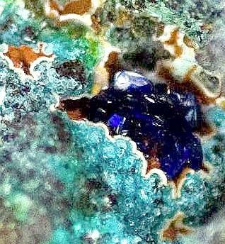 Chalcomenite Locality: Pakajake Canyon (Pacajake Canyon), Chayanta Province, Potosí Department, Bolivia (Locality at ) Size: 4.3 cm x 3.1 cm x 2.4 cm. A superb, incredibly blue, glassy, transparent gem crystal of the rare copper selenide chalcomenite, 3mm across, in a protected vug. Ex. Philadelphia Academy of Sciences Collection.